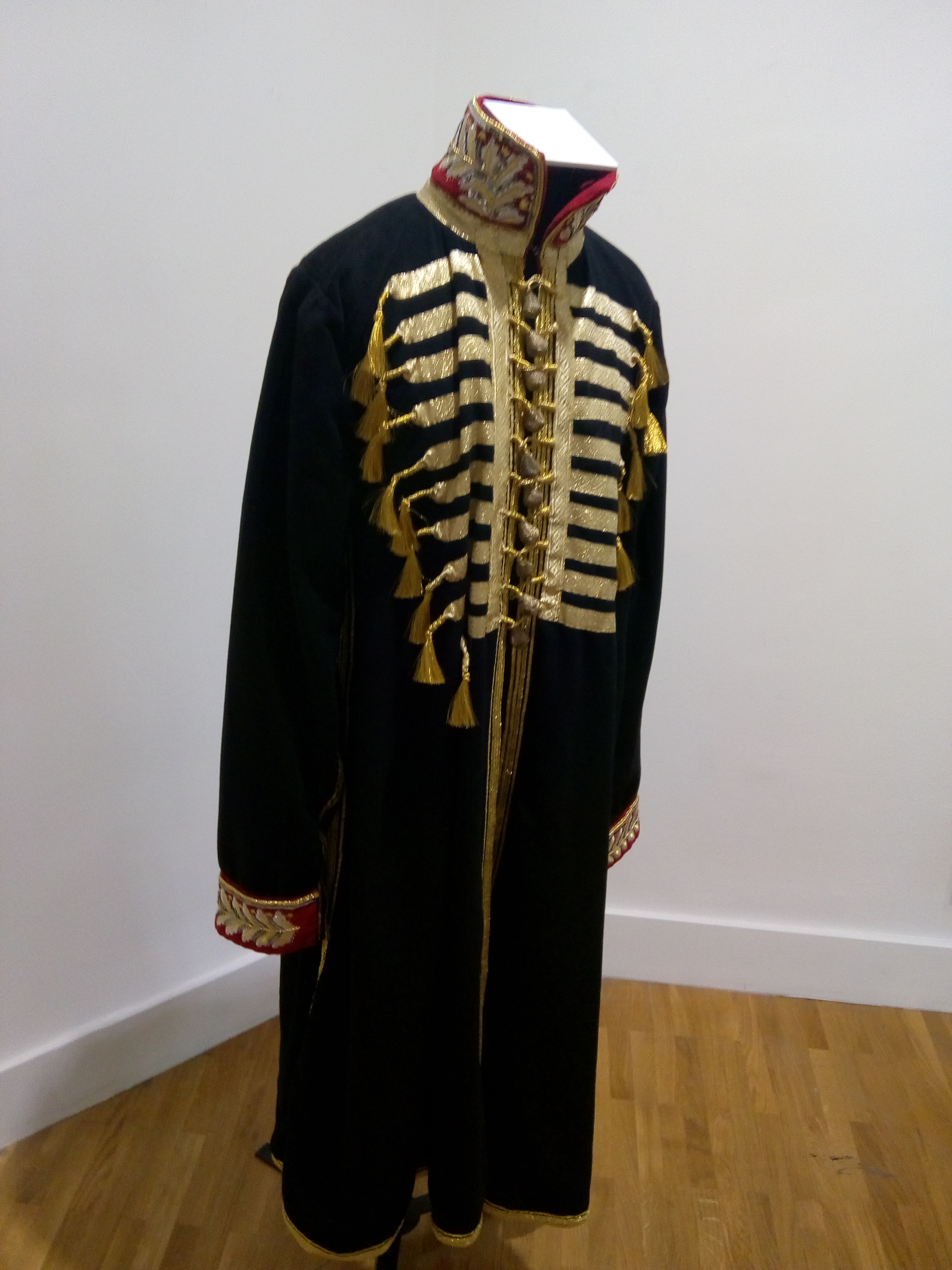 Russian general coat wore by Karadjordje Petrović